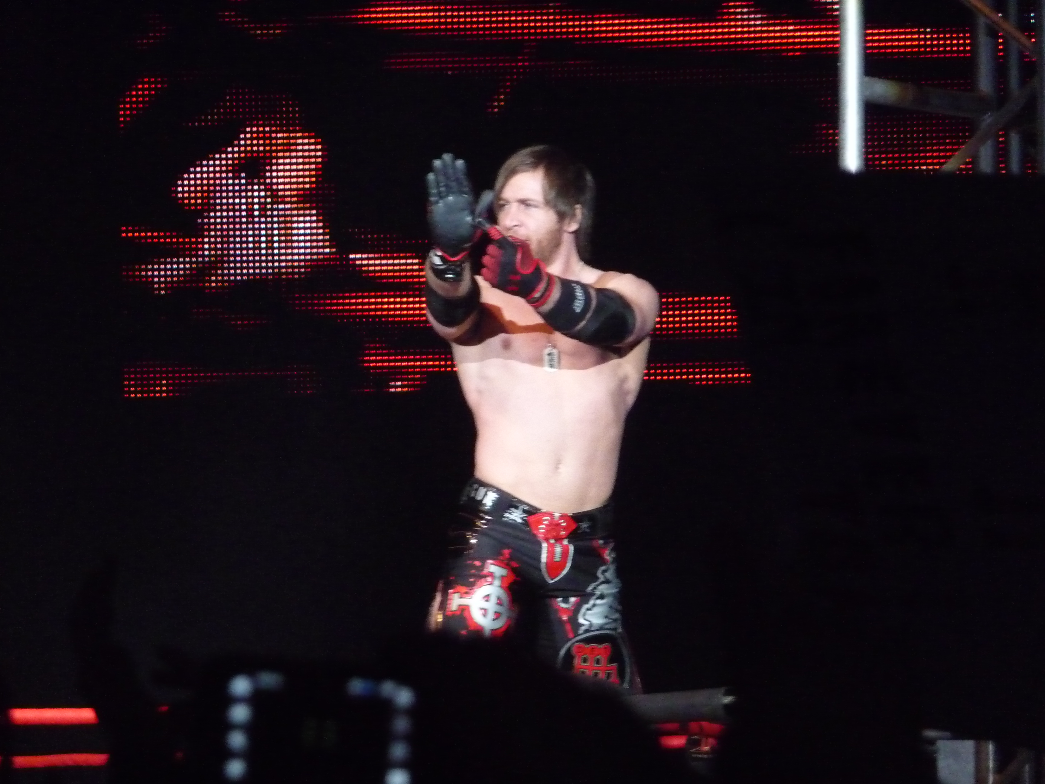 Professional wrestler Chris Sabin (real name Joshua Harter) prior to an Ultimate X match for the TNA X-Division Championship at a TNA show in Wembley Arena on January 30, 2010.